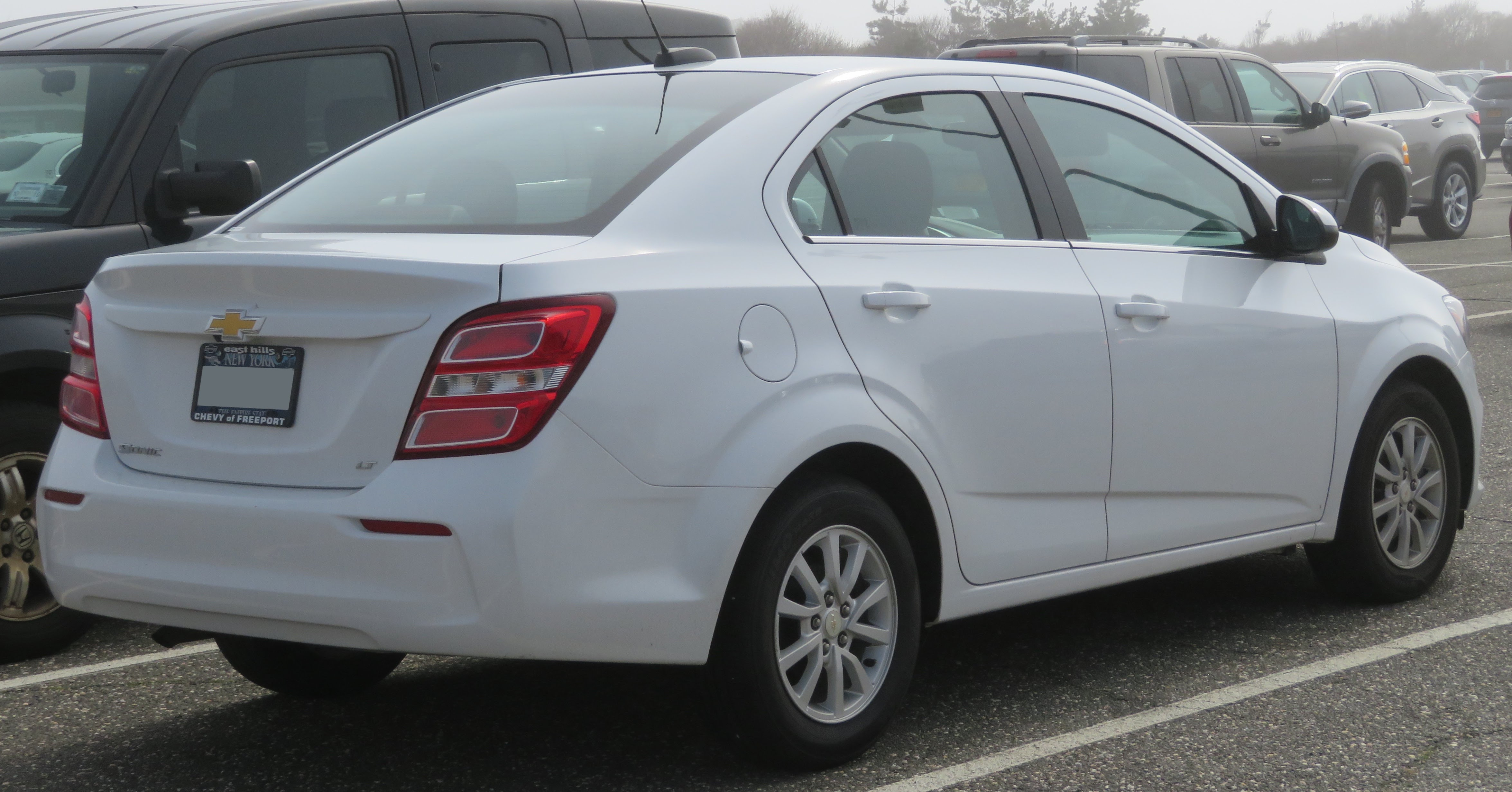 In Long Island, New York